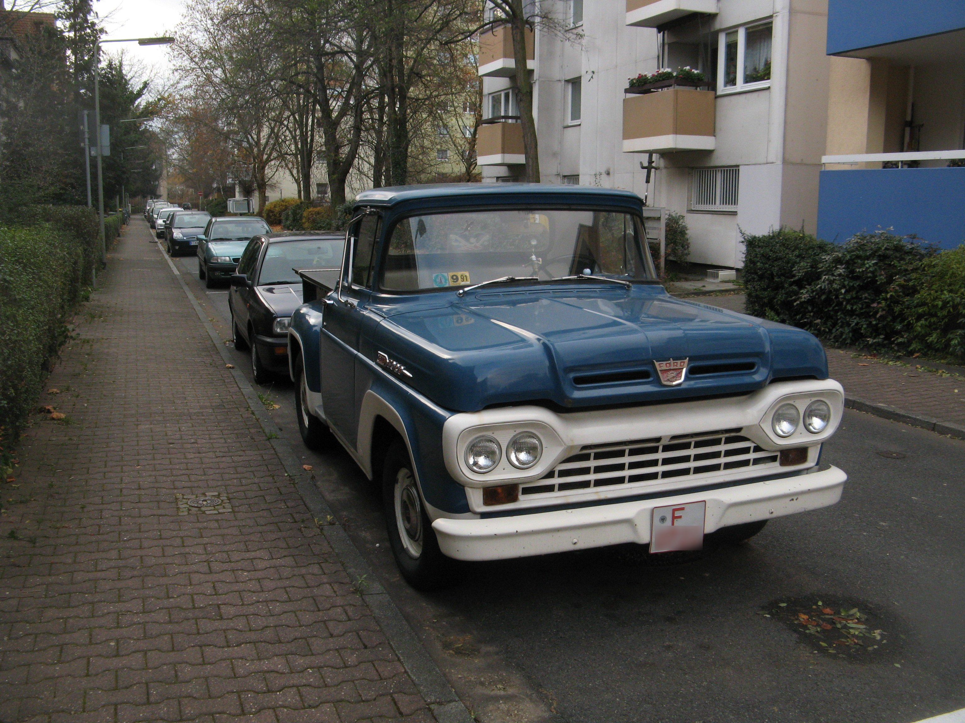 1960 Ford F-100 in frankfurt-riederwald